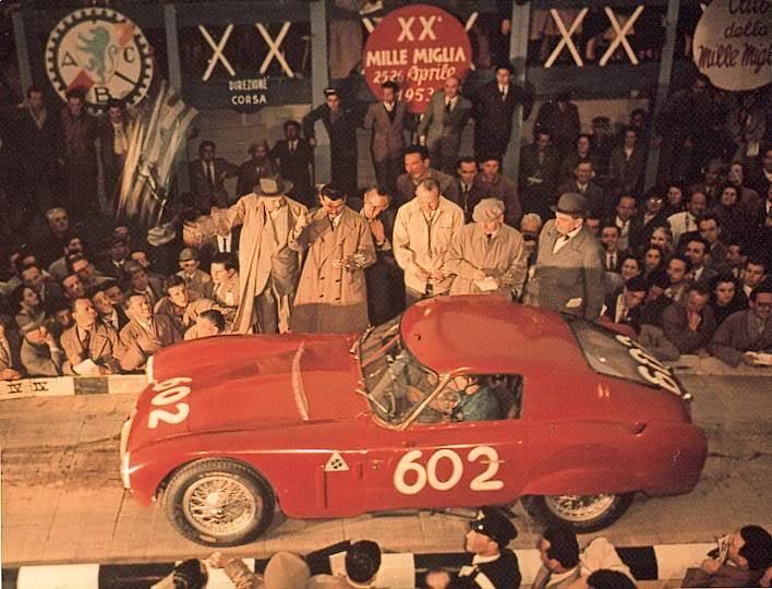 Juan Fangio/Giulia Sala in Alfa Romeo 6C 3000 CM chassis 1361*00124 at 1953 Mille Miglia on April 26, they ended in 2nd place, competing for the S. P. A. Alfa Romeo team.[1]